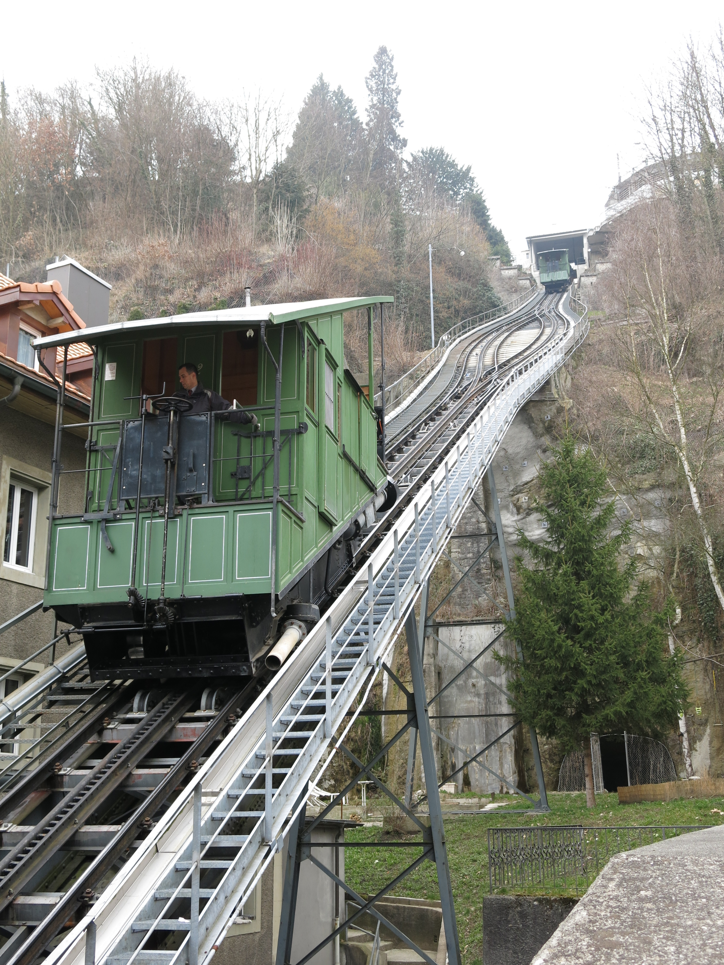 Fribourg, Switzerland